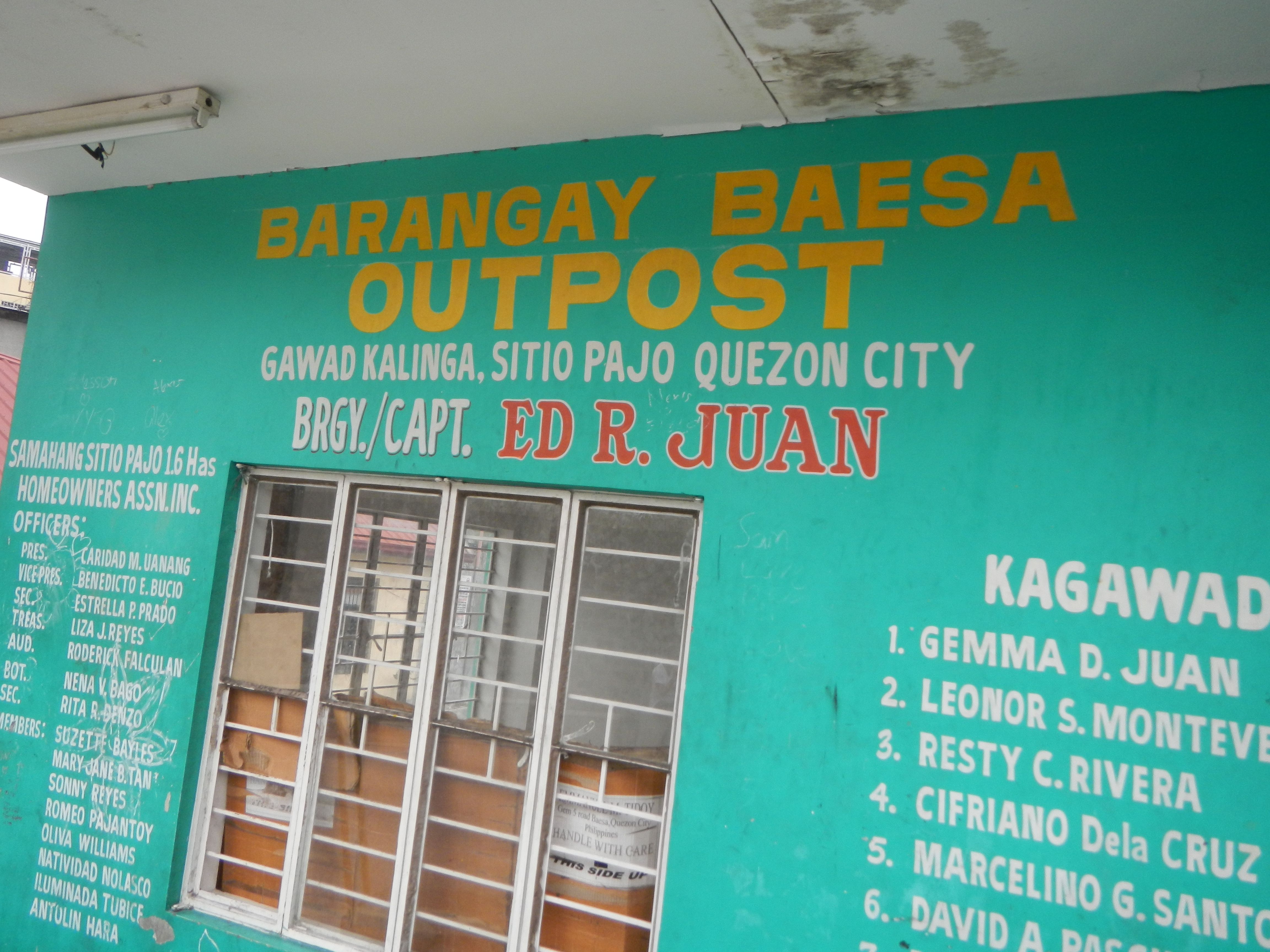 Maynilad (Bahay Toro Water Reclamation-Wet Well Station, Bahay Toro, Project 8, Pugad Lawin, Districts 1, Quezon City) Fema Road corner and to Seminary Road, Espiritu Santo Ecumenical Chapel (Gawad Kalinga, Sitio Pajo, Baesa, Quezon City) Legislative districts of Quezon City Districts 6, Barangays of Quezon City, Barangay Baesa (Brittani or Project 8), District 6, Quezon City; (Ace Medical Center beside the Quezon City General Hospital Medical Center List of hospitals in Metro Manila List of barangays of Metro Manila, Legislative districts of Quezon City District 1, Barangays of Quezon City Barangay Bahay Toro, Project 8, District 1, Quezon City; surrounded by the List of rivers and estuaries in Metro Manila San Juan River (Metro Manila) tributary of Pasig River, Esteros de Bahay Toro-Bago Bantay-Culiát, Quezon City; Note: (Judge Florentino Floro, the owner, to repeat, Donor Florentino Floro of all these photos hereby donate gratuitously, freely and unconditionally all these photos to and for Wikimedia Commons, exclusively, for public use of the public domain, and again without any condition whatsoever).